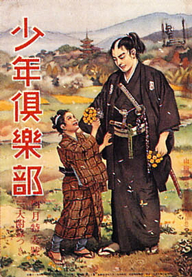 Shōnen Club (say Boy's Club) was a Japanese magazine for boy-hood issued from Nov.1914 until Jan.1962.